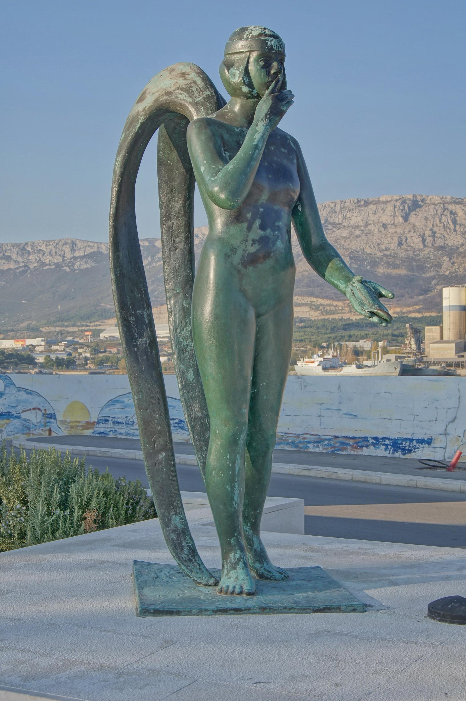 A statue at the entrance to Vranjic. The author of the sculpture titled Anđeo Rafael is Dijana Iva Sesartić. The sculpture was installed in 2001.